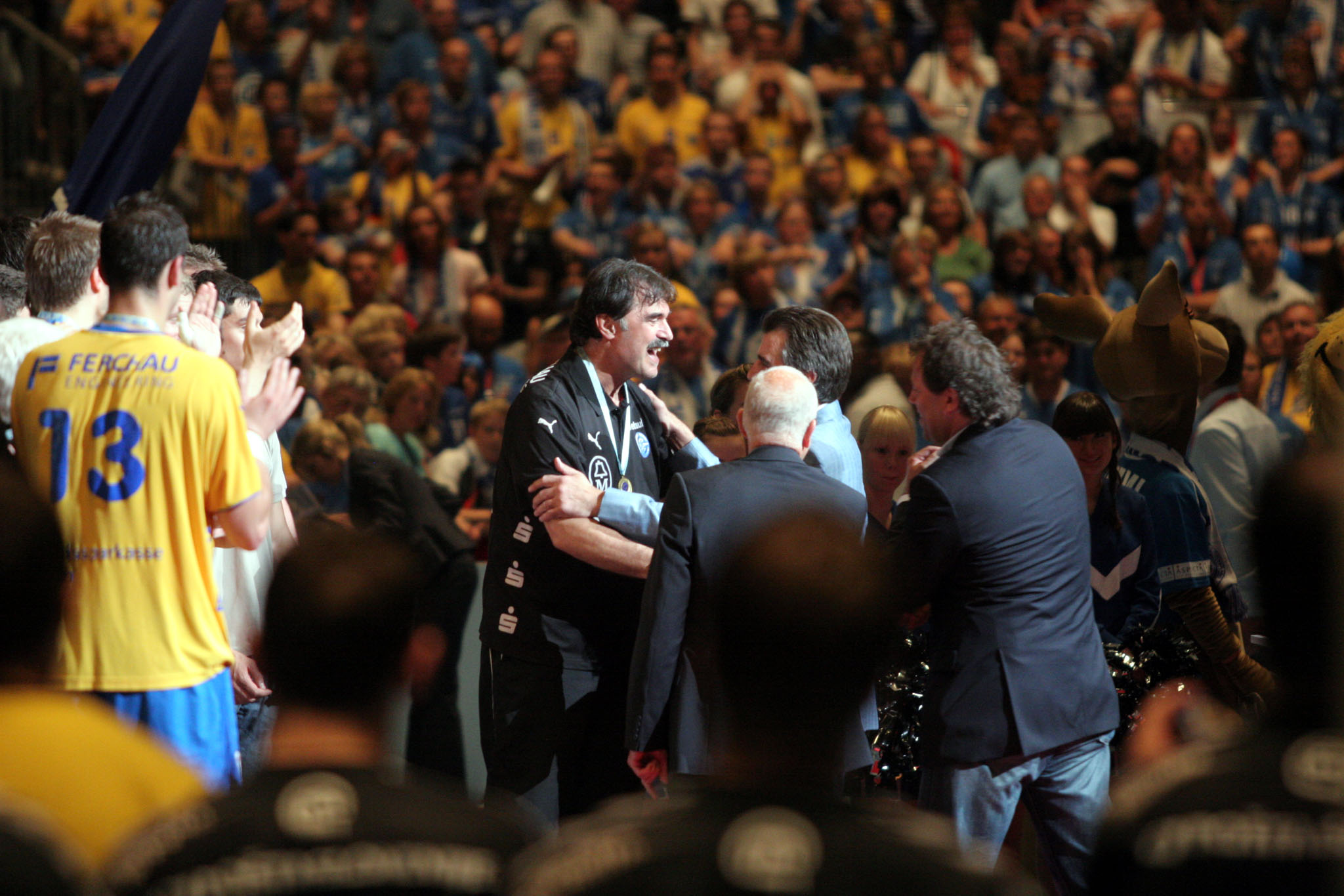 The award ceremony of VfL Gummersbach winning the EHF Cup 2008/2009 on June 1st 2009 in Cologne´s Lanxess arena.